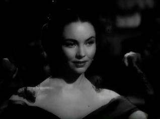 Cropped screenshot of Jennifer Jones from the trailer for the film Madame Bovary